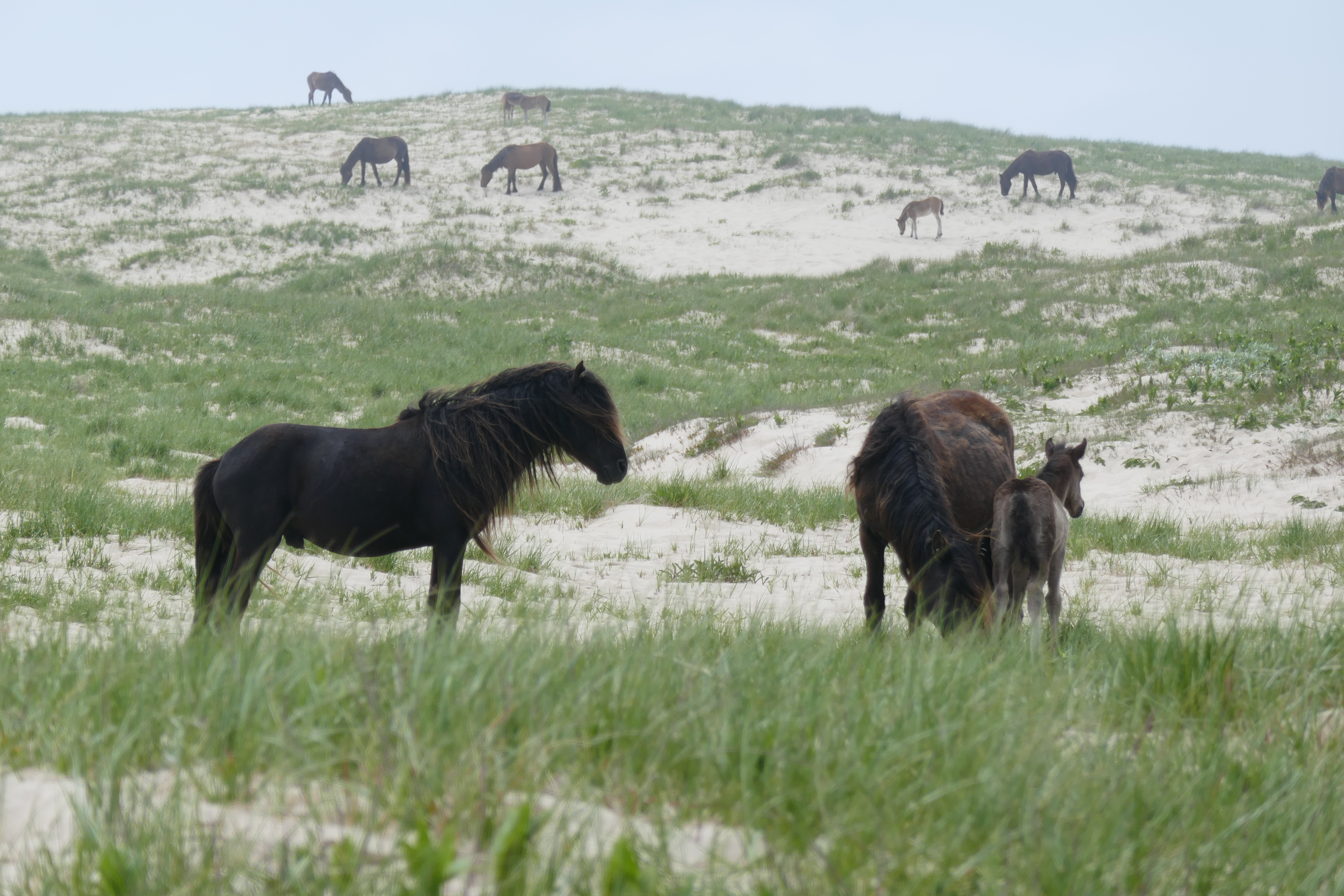 Stallion and harem on Sable Island, Nova Scotia, Canada